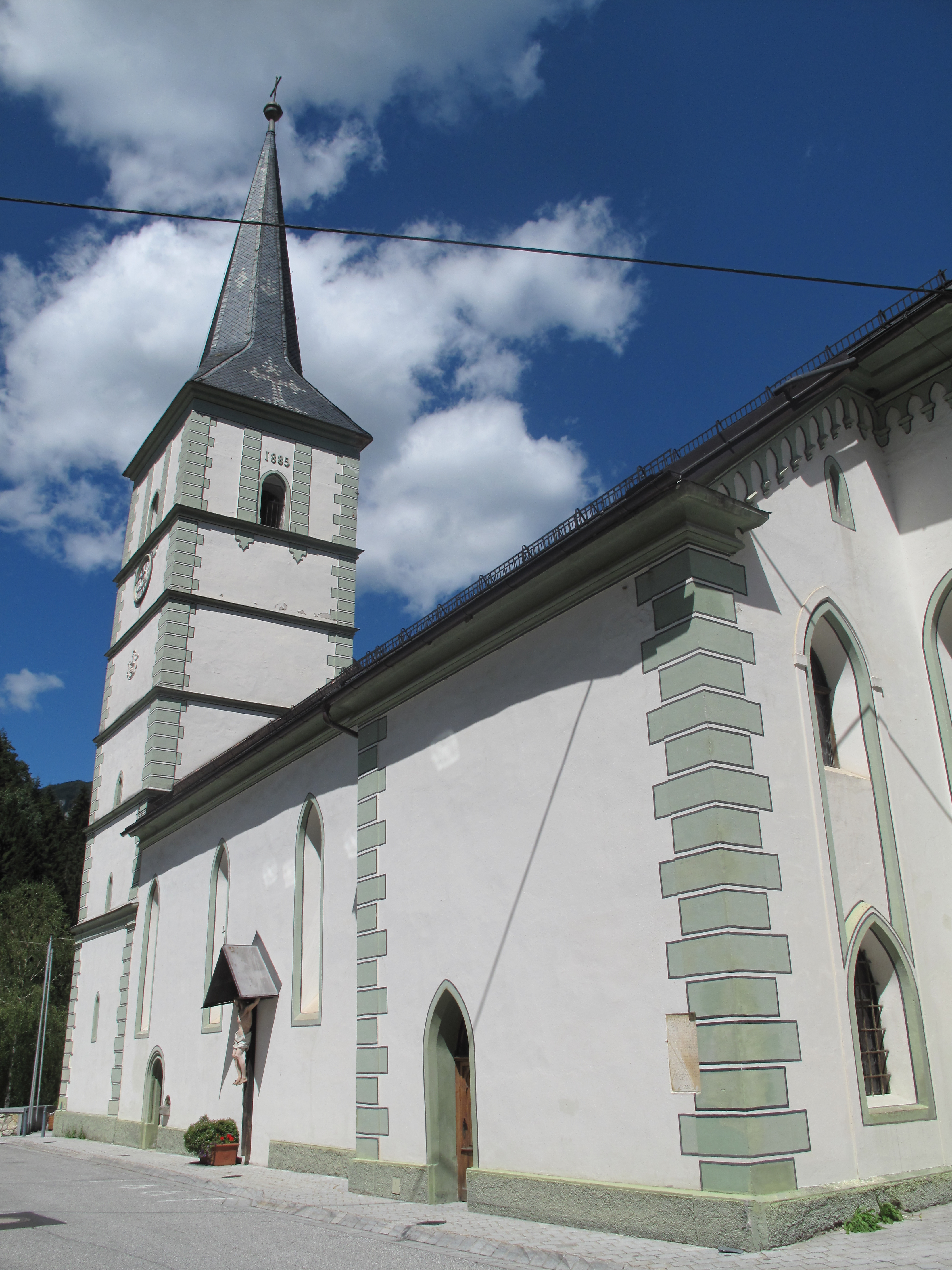 Bad Eisenkappel, church